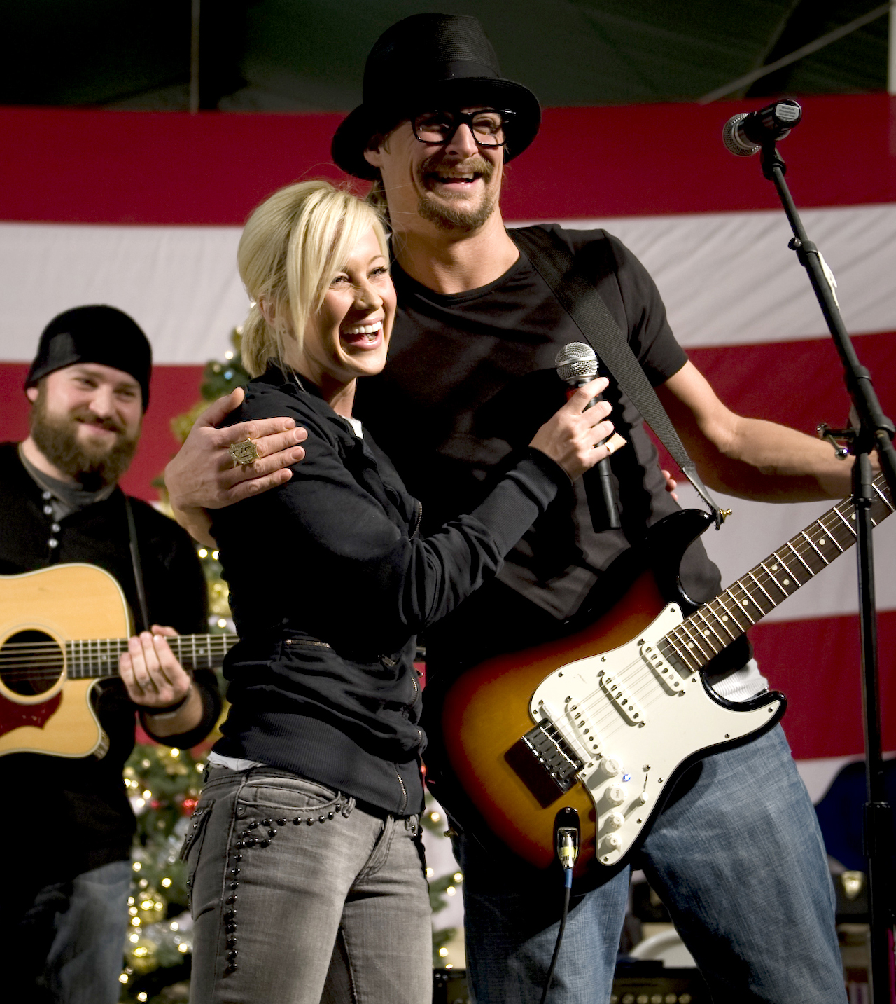 Grammy award winning musician Kid Rock, American Idol contestant and country musician Kellie Pickler and musician Zack Brown entertain troops stationed at Kandahar, Afghanistan during the 2008 USO Holiday Tour. Tour host Navy Adm. Mike Mullen, chairman of the Joint Chiefs of Staff, along with his wife Deborah, welcomed comedians John Bowman, Kathleen Madigan and Lewis Black; actress Tichina Arnold on the tour bringing music and entertainment to service members and their families stationed overseas.